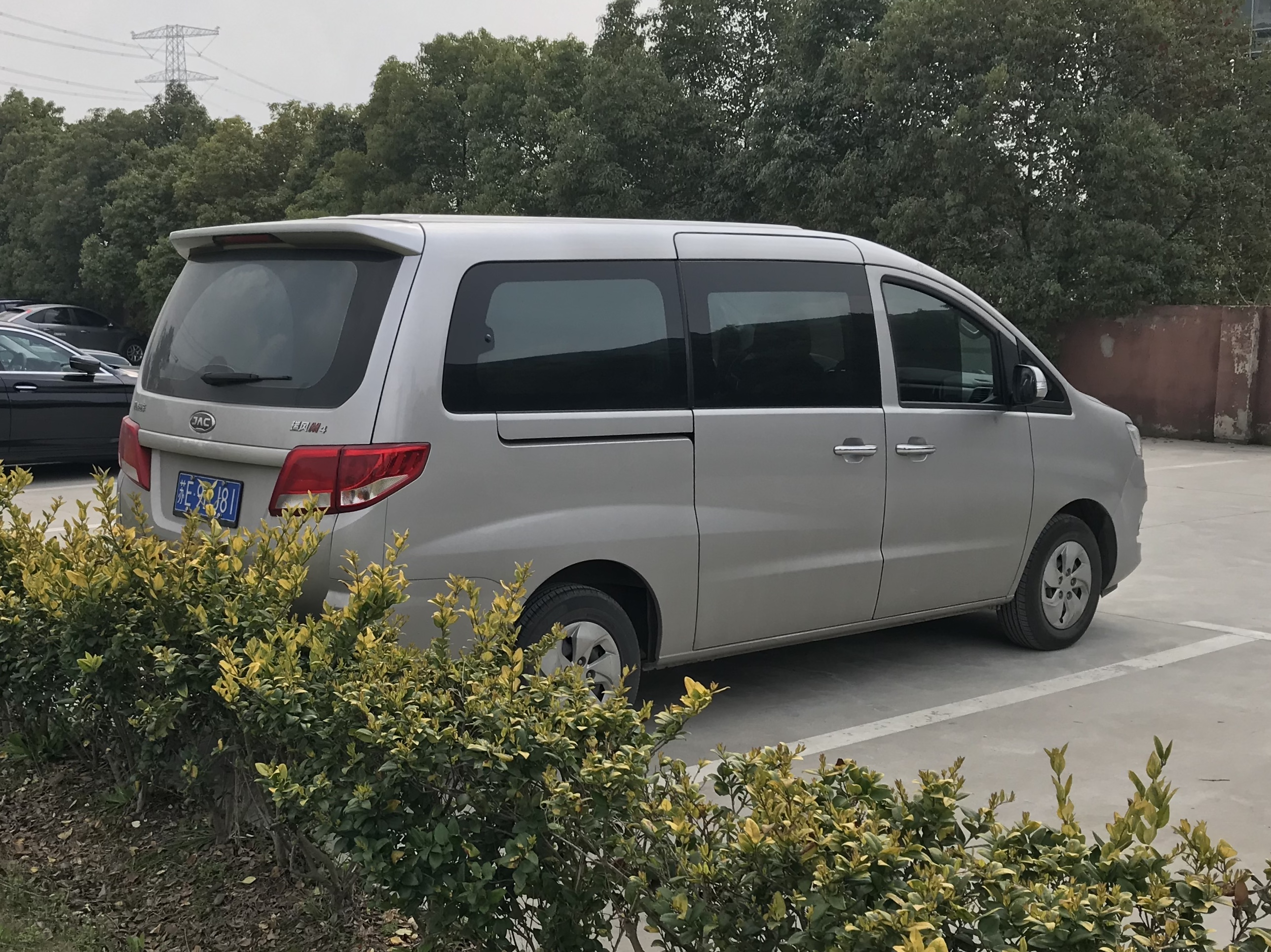 Refine Ruifeng M4